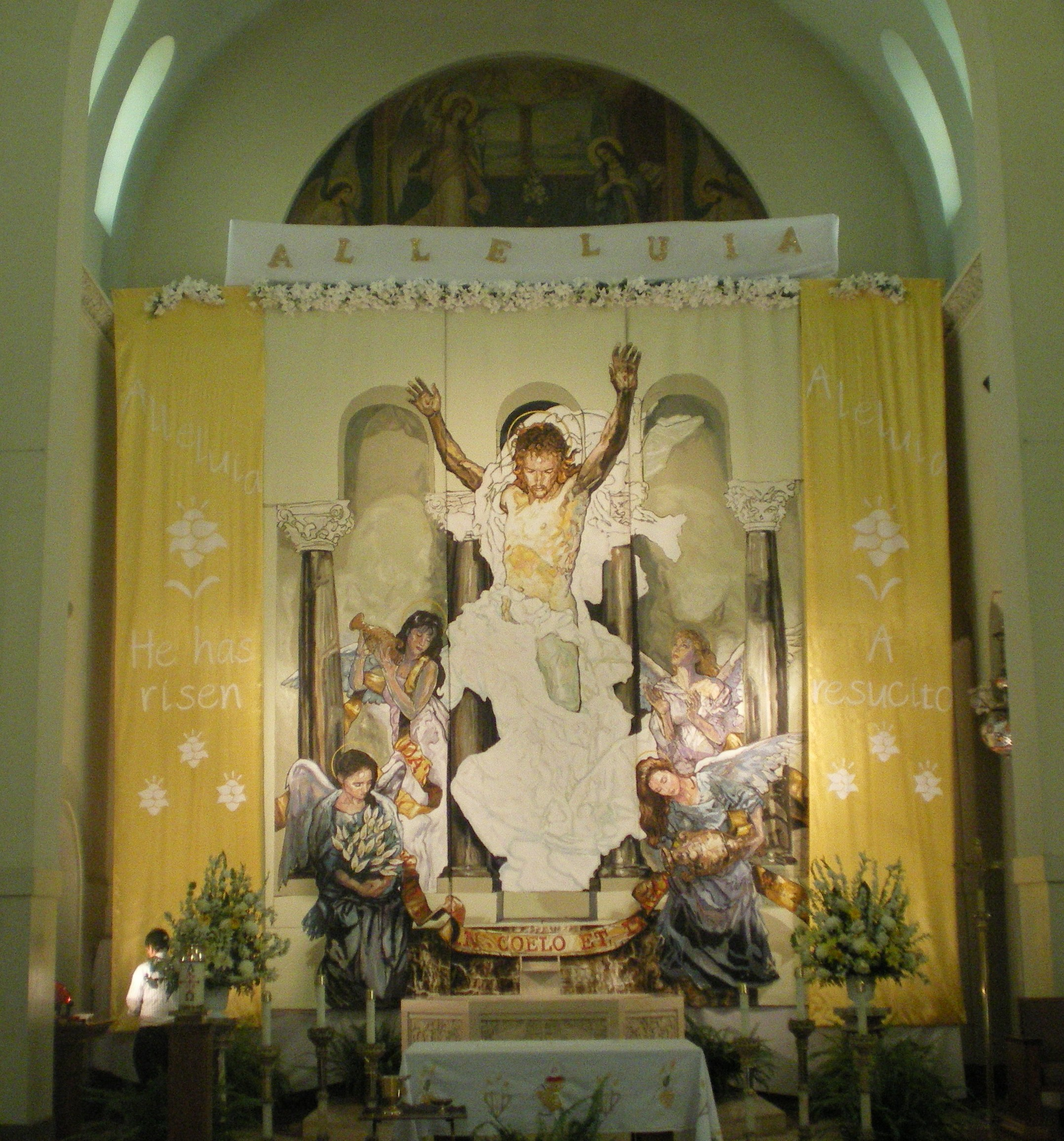 Altar at St. Mary Catholic Church, 407 S. Chicago St., Los Angeles, California